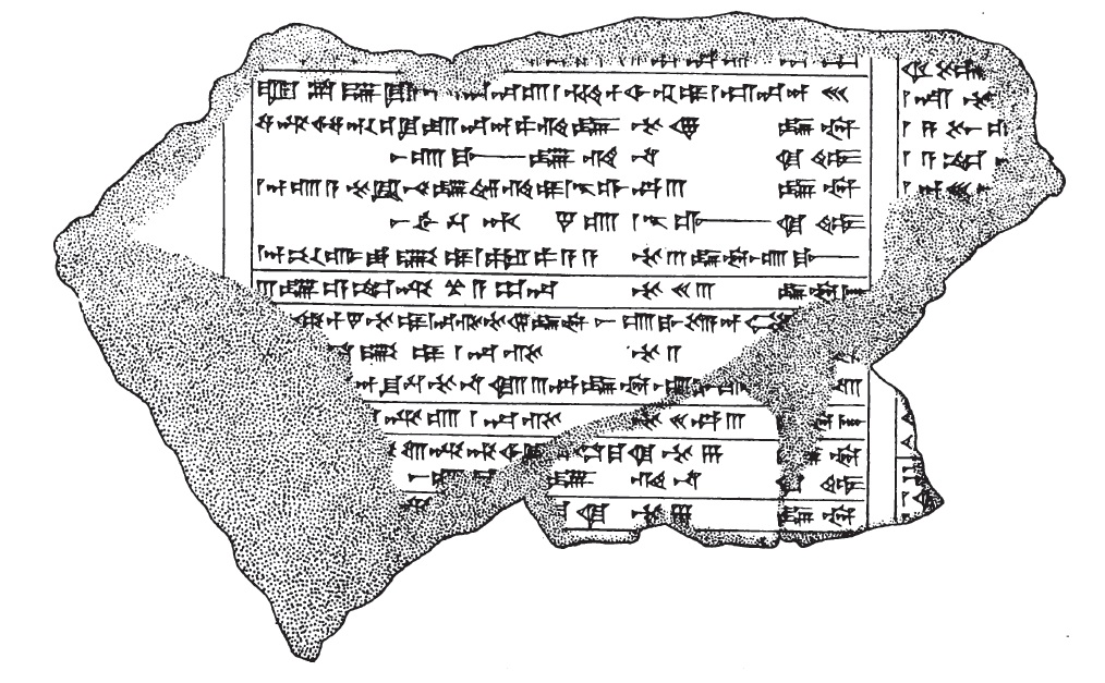 King's line-art for the fragment K. 8532 of the Dynastic Chronicle, an ancient Mesopotamian historiographic work.